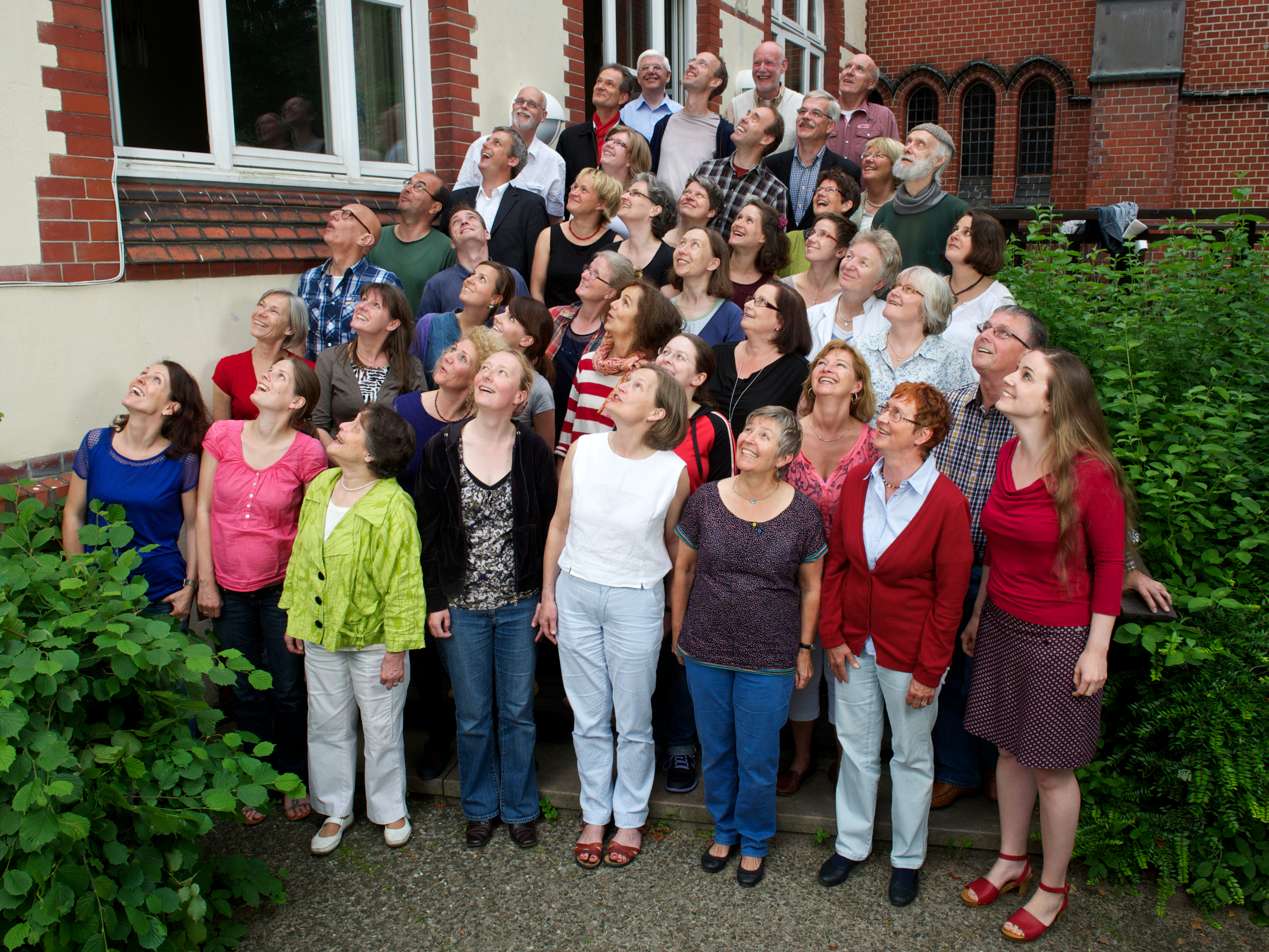 members of Kodály-Choir Hamburg